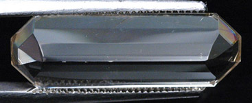 Aragonite Locality: Czech Republic Size: thumbnail, 24.5 x 8.0 mm ; 10.19 carats Aragonite This is another super rare collector's stone. When is the last time that you can remember seeing a faceted stone of Aragonite? This mineral rarely comes in facet grade material, especially in gems this size. It's a superb, very very slightly included well cut gem with an Elongated Octagonal cut. These gems are very difficult to find these days as I'm told that the locality that produced these stones is long defunct.